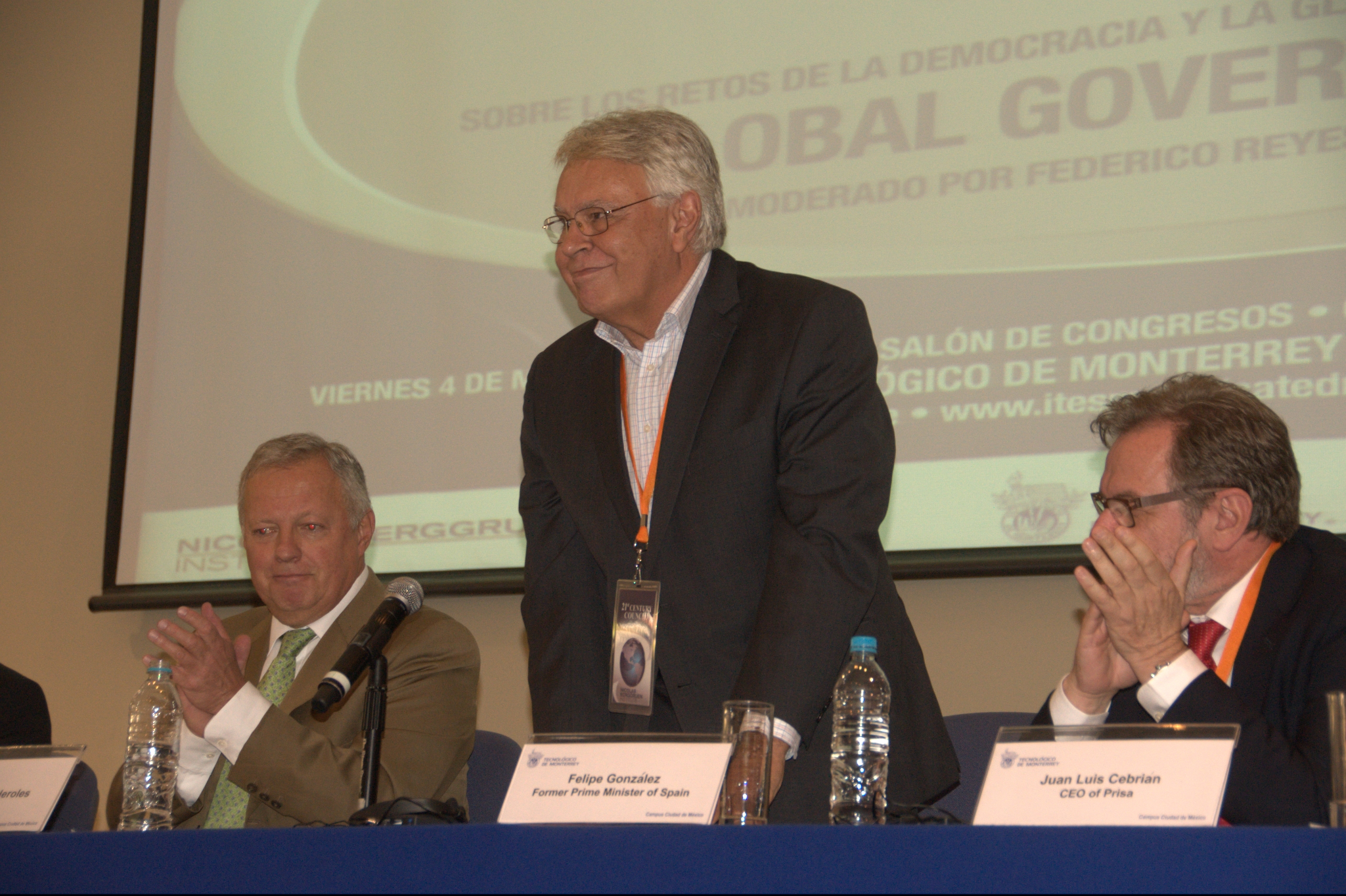 Felipe Gonzalez at the Global Governance event at ITESM- Campus Ciudad de México